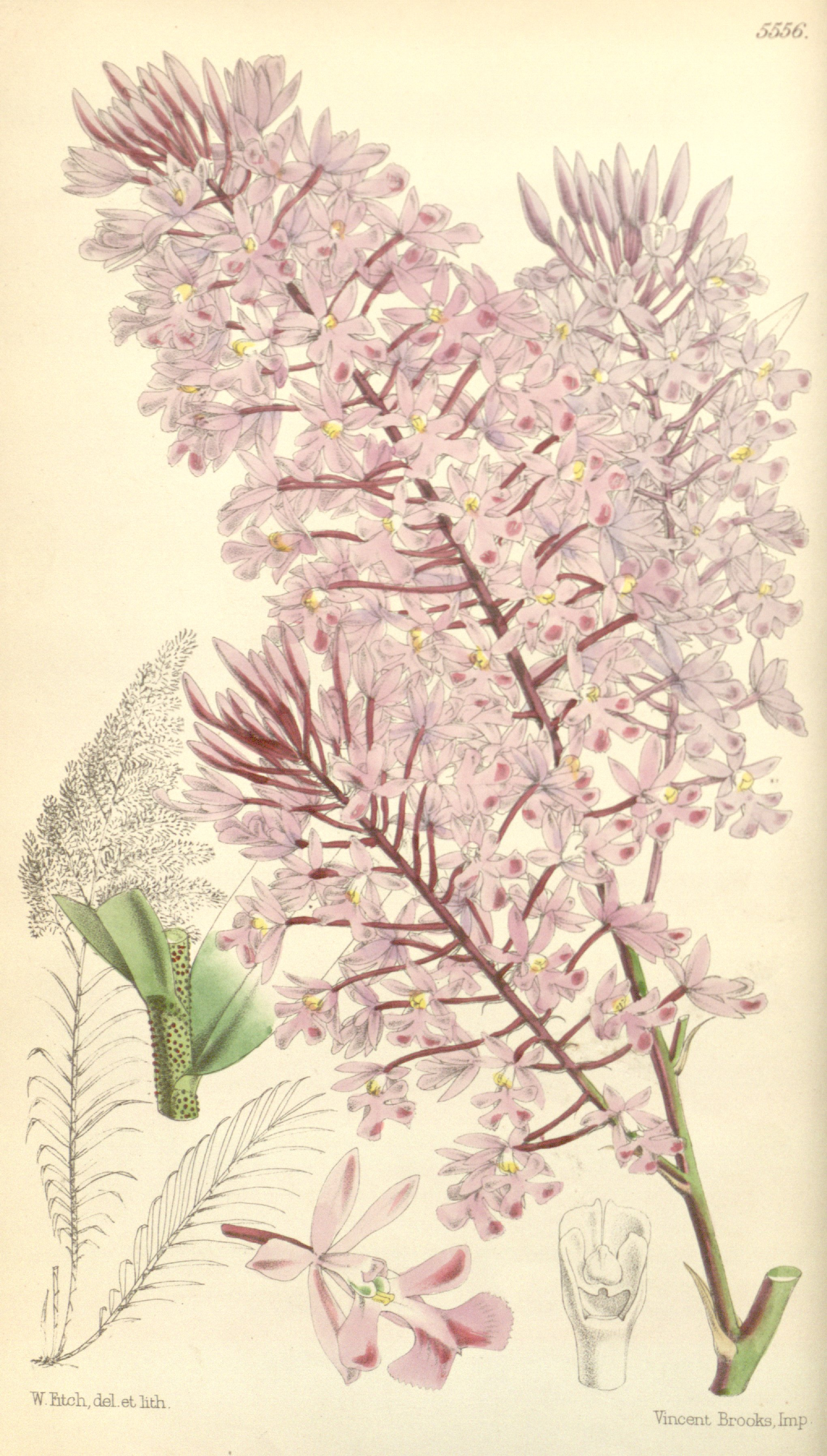 Illustration of Epidendrum myrianthum